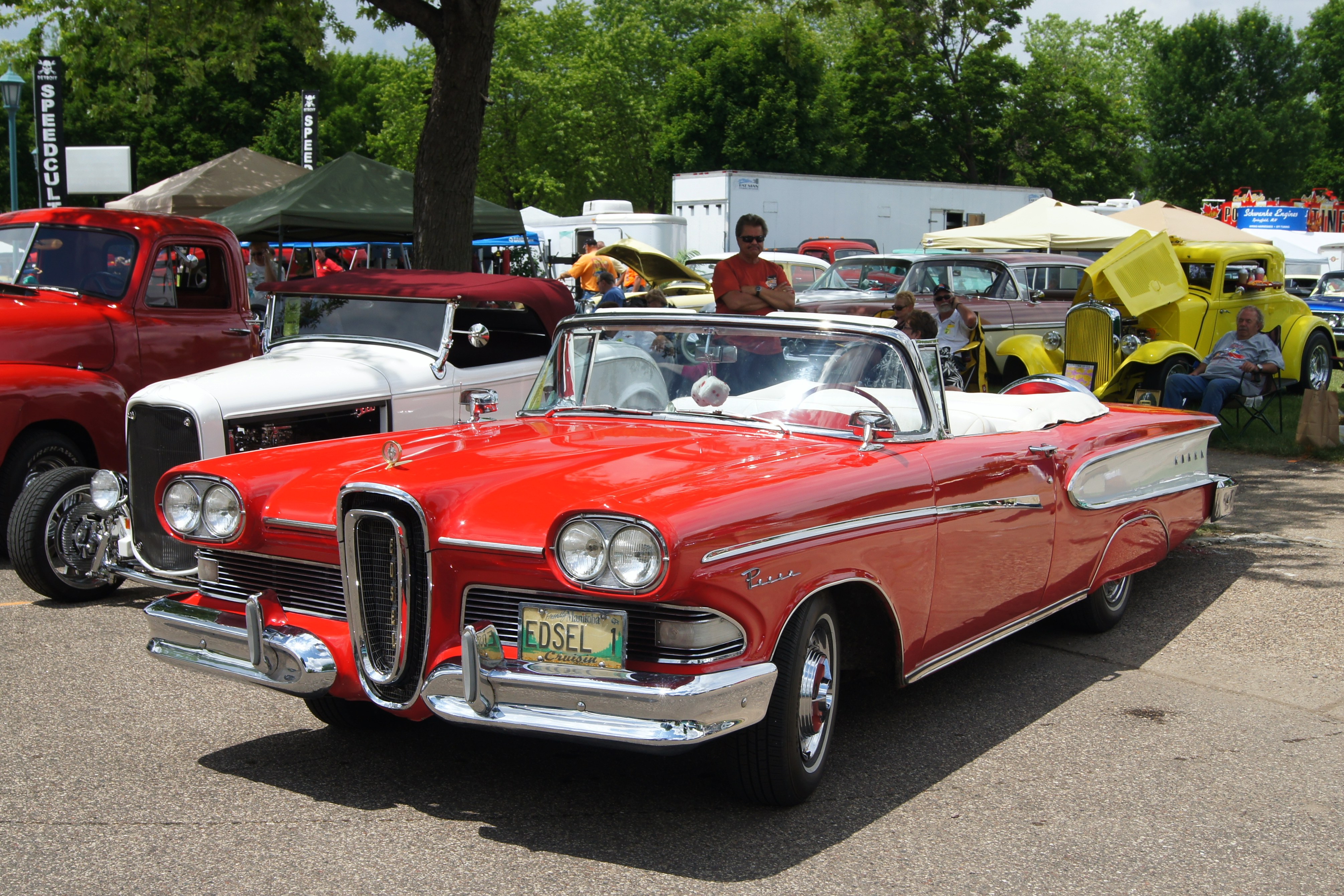 MSRA “BACK TO THE 50′s” 42nd Annual June 19-21, 2015 State Fairgrounds St. Paul Minnesota Click here for more car pictures at my Flickr site.